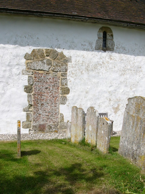 Church of England parish church of St Botolph, Hardham, West Sussex: blocked 11th century south doorway